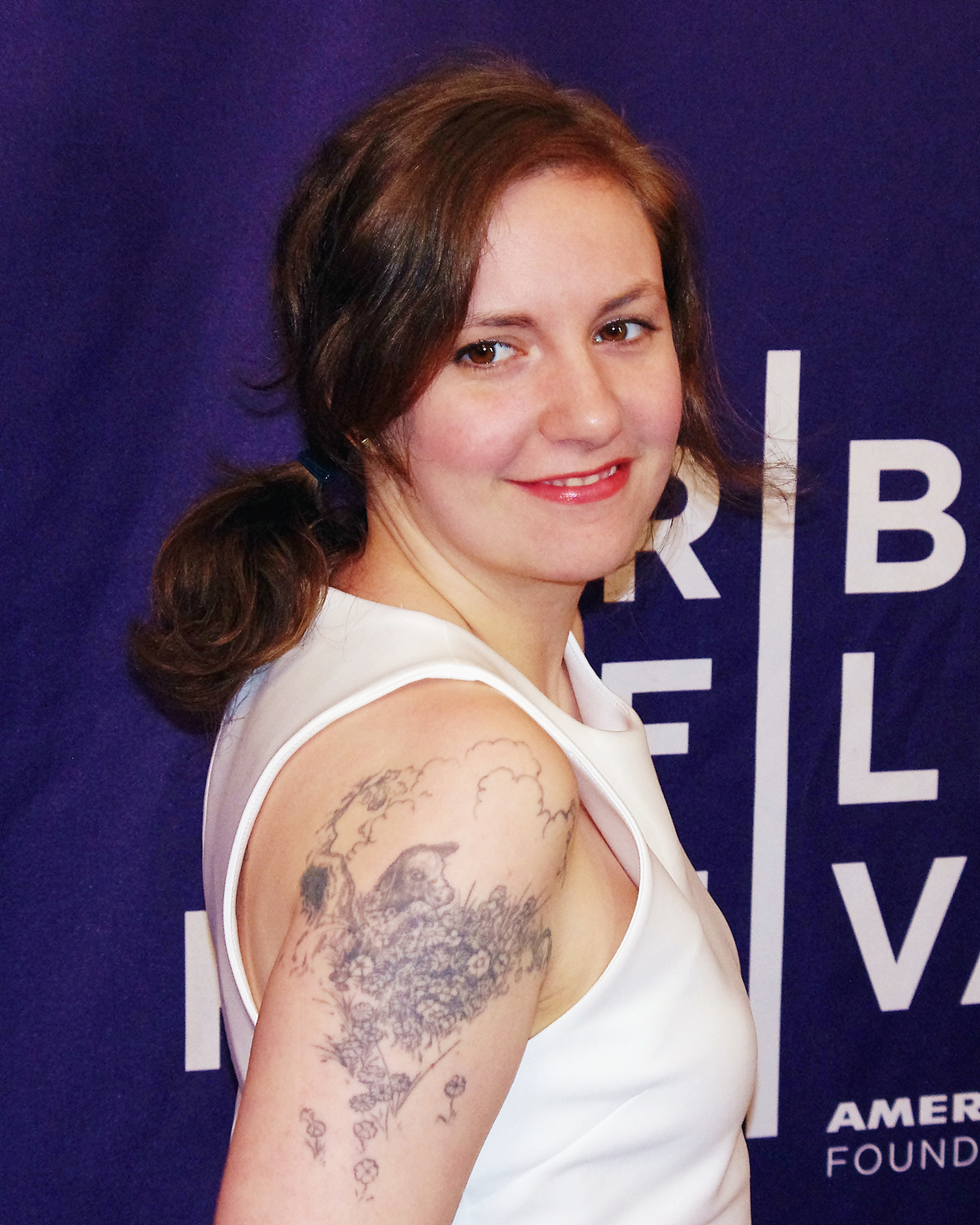 Lena Dunham at the 2012 Tribeca Film Festival premiere of Supporting Characters